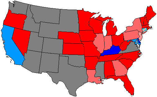 Summary of party control of U.S. house seats in the 40th United States Congress following election. Stripes indicate a tie between two or more parties. Legend: 80.1-100% Democratic seat majority 60.1-80% Democratic seat majority 60% or less Democratic seat plurality 60% or less Republican seat plurality 60.1-80% Republican seat majority 80.1-100% Republican seat majority